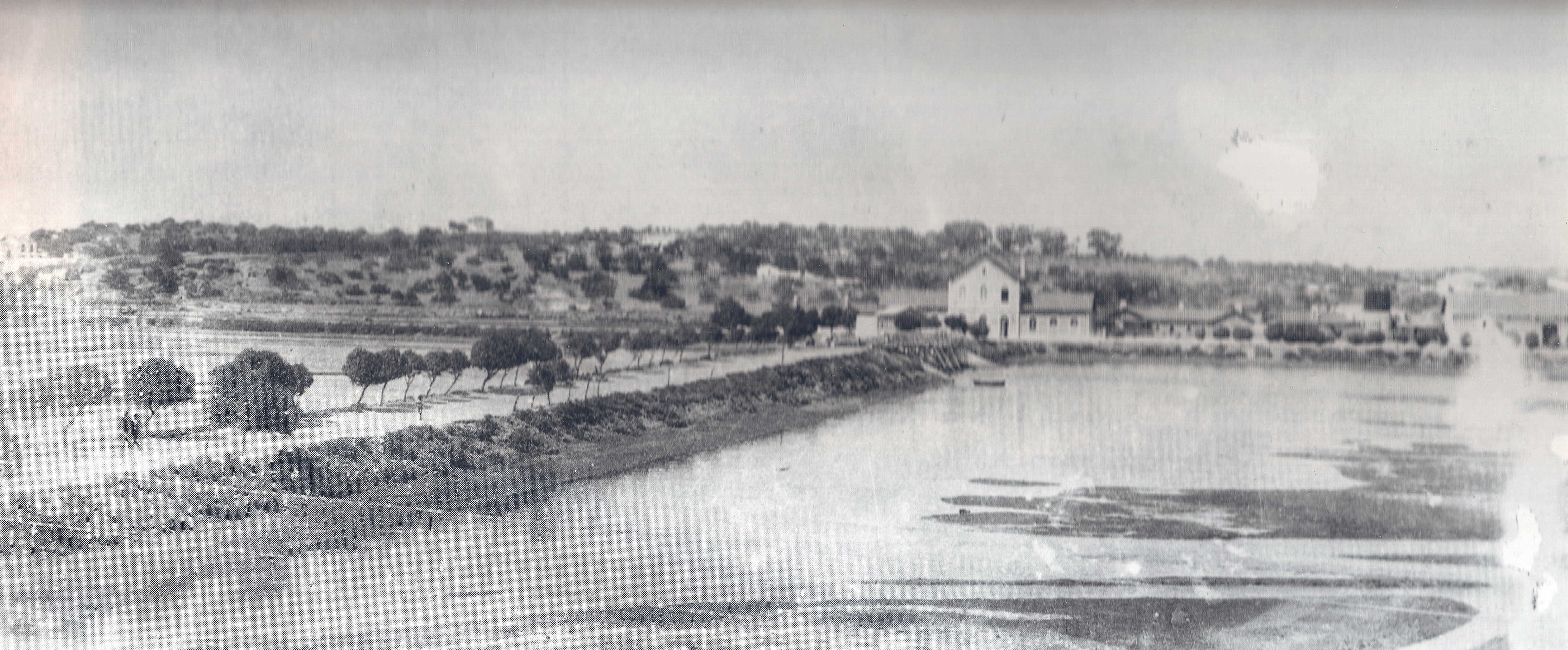 Primitive access to the old Lagos Railway Station, in Algarve, Portugal. The wood structure at the end of the causeway was a bridge in construction.